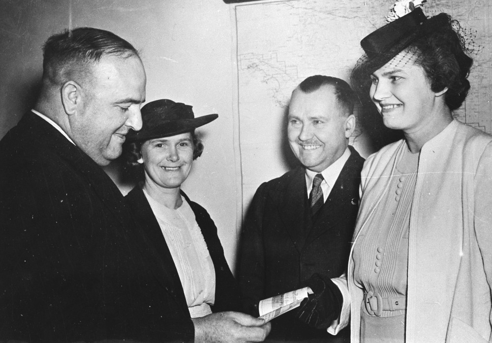 The chairman of the Fighting Forces Comforts Fund receiving a cheque for 450 pounds from Mrs. C. Shearer, president of the Kapunda fund unit; Left-right: Lt. Col. W.F.J. McCann; Mrs H. Thompson; Malcolm McRae, secretary of the Comforts Fund and a librarian at the S.A. Public Library.